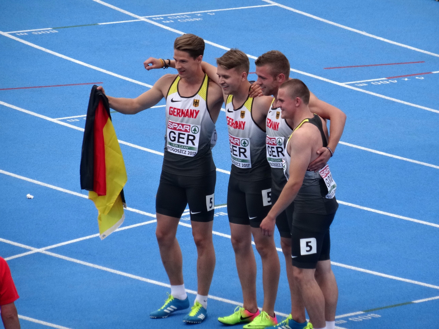 2017 European Athletics U23 Championships, 4x100m relay men final